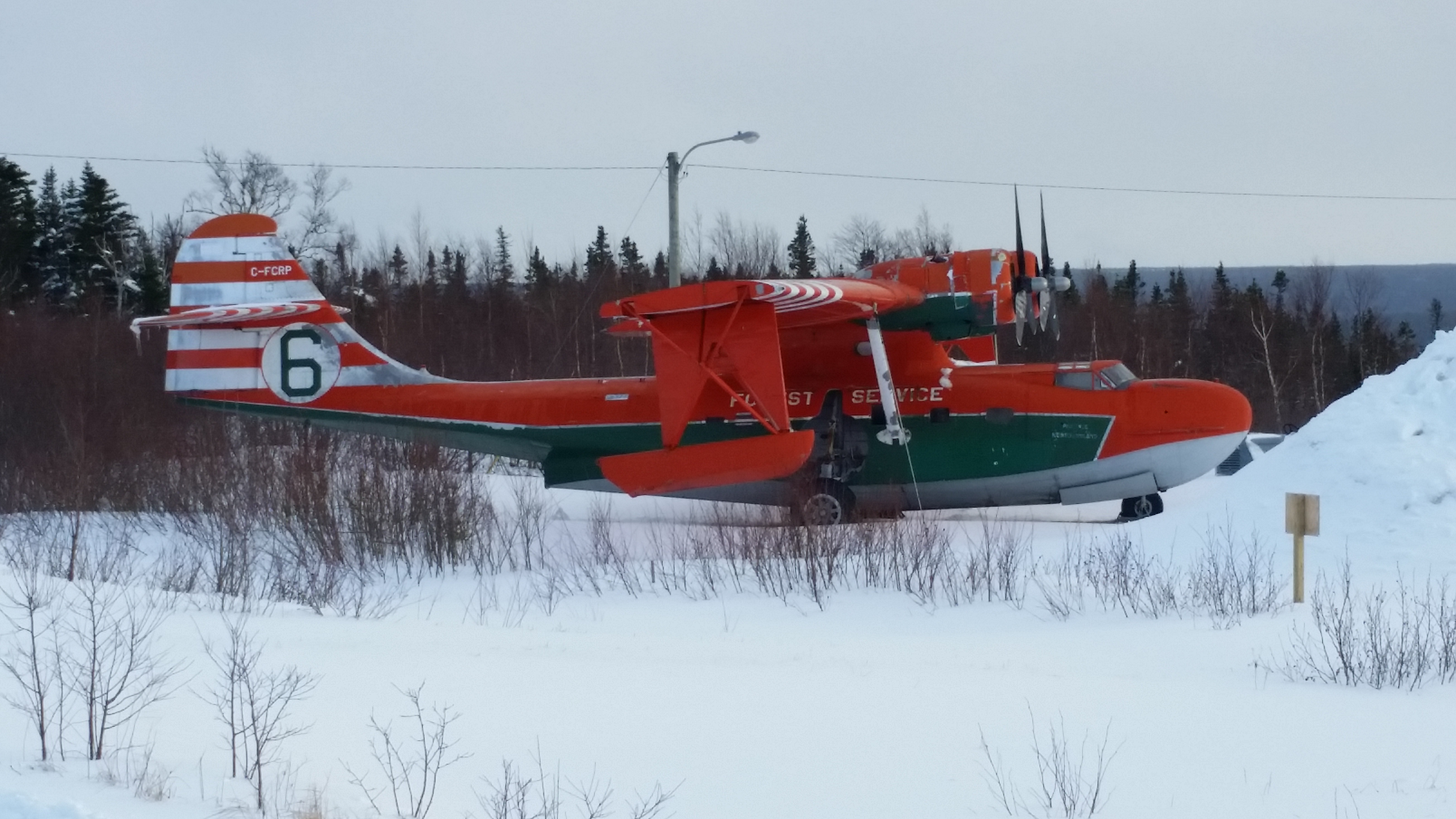 North Atlantic Aviation Museum Forest Service Consolidated PBY Catalina